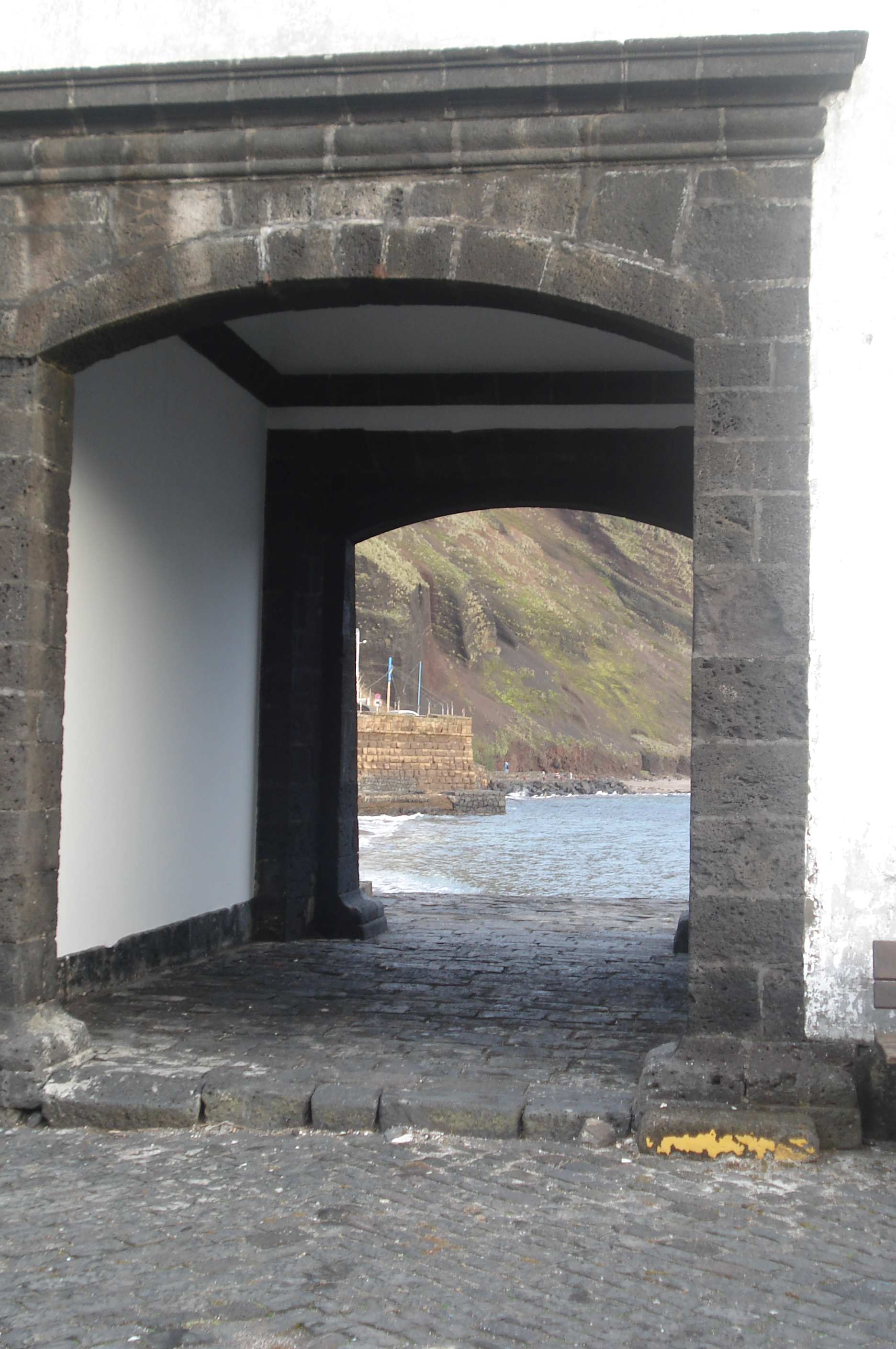 The simple portico on the inside of the city gates of Porto Pim, civil parish of Angústias, municipality of Horta (Azores), Portugal